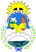 Emblem of Presidencia Roque Sáenz Peña, a city in Chaco Province, Argentina.